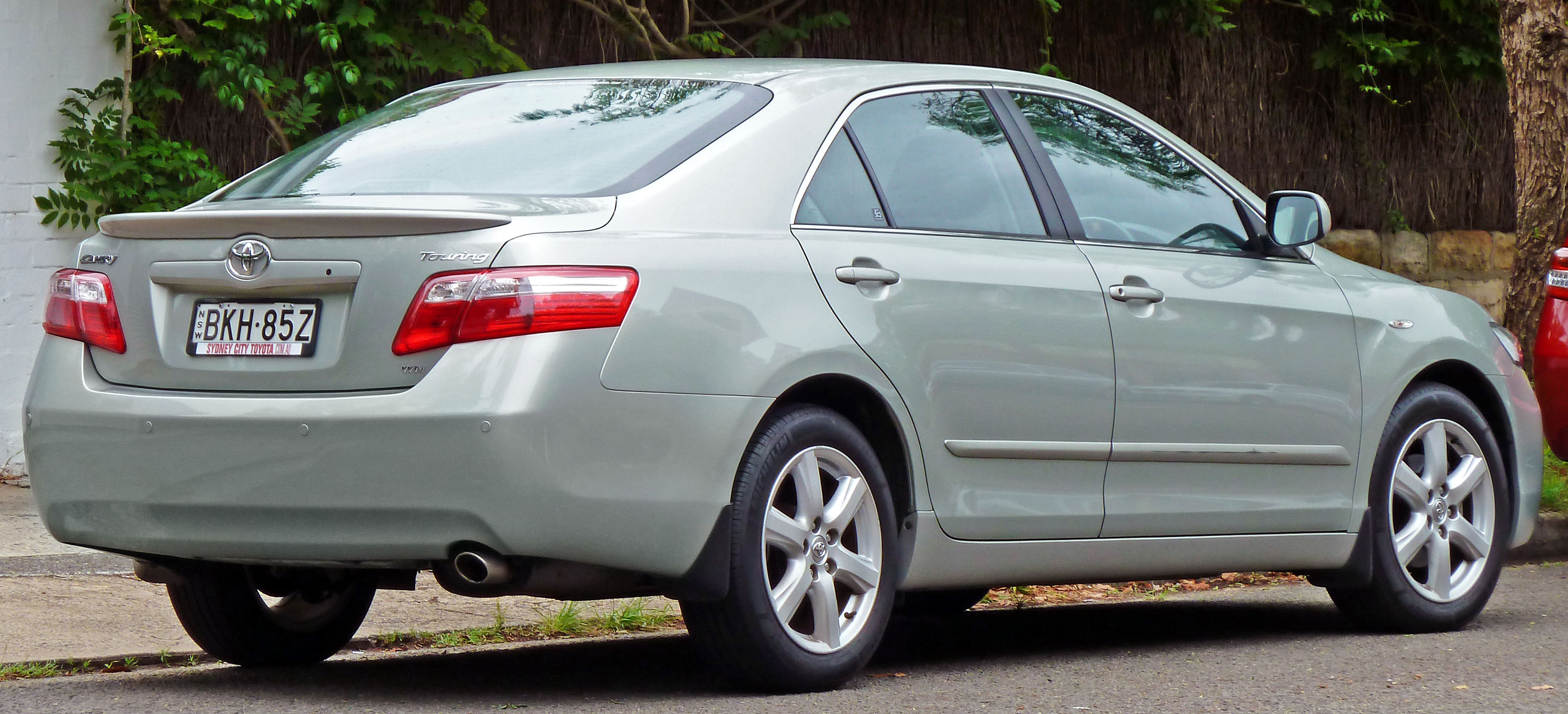 2009 Toyota Camry (ACV40R) Touring sedan. Photographed in Rose Bay, New South Wales, Australia.